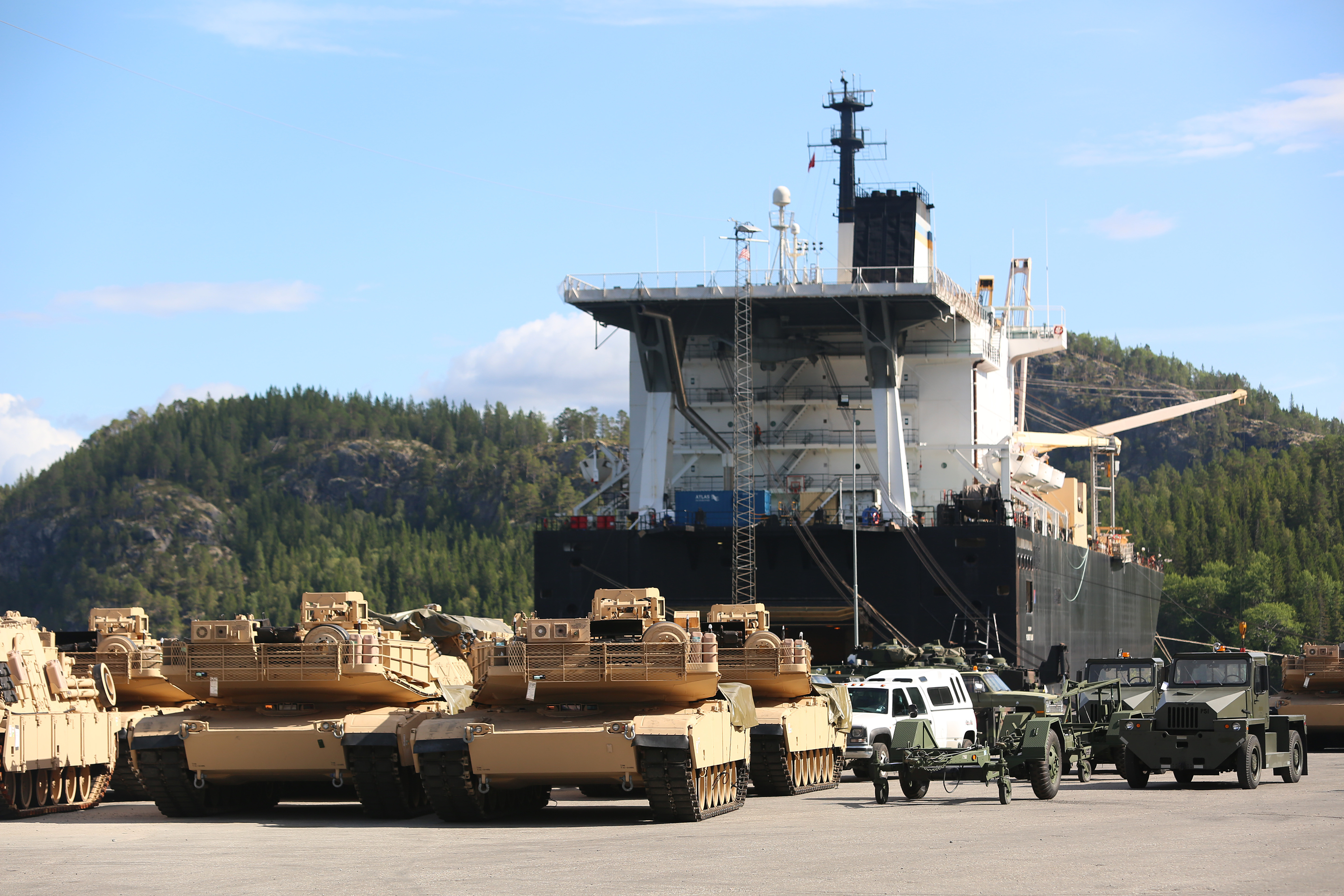 M1A1 Abrams Main Battle Tanks and other vehicles and equipment are staged for transportation at the designated offload pier during a pre-planned Single Ship Movement and offload of military equipment from a Maritime Prepositioning Force ship in the Trøndelag region of Norway. U.S. Marines from 2nd Marine Logistics Group out of Camp Lejeune, NC, in coordination with their Norwegian counterparts, are modernizing some of the equipment currently stored within six caves as a part of the Marine Corps Prepositioning Program-Norway by placing approximately 350 containers of gear and nearly 400 pieces of heavy rolling stock into the storage caves. Specific equipment which will greatly increase the program's readiness includes M1A1 Main Battle Tanks, Tank Retrievers, Armored Breeching Vehicles, Amphibious Assault Vehicles, Expanded Capacity Vehicle (ECV) Gun Trucks and several variants of the MTVR 7-1/2 ton trucks. Planning for this equipment refresh began in the spring of 2010. Marines and contractors from Blount Island Command in Jacksonville, Fla. and Marine Corps Forces Europe and Africa are also in Norway to ensure the operation is conducted in a safe and timely manner. Unit: U.S. Marine Corps Forces Europe and Africa